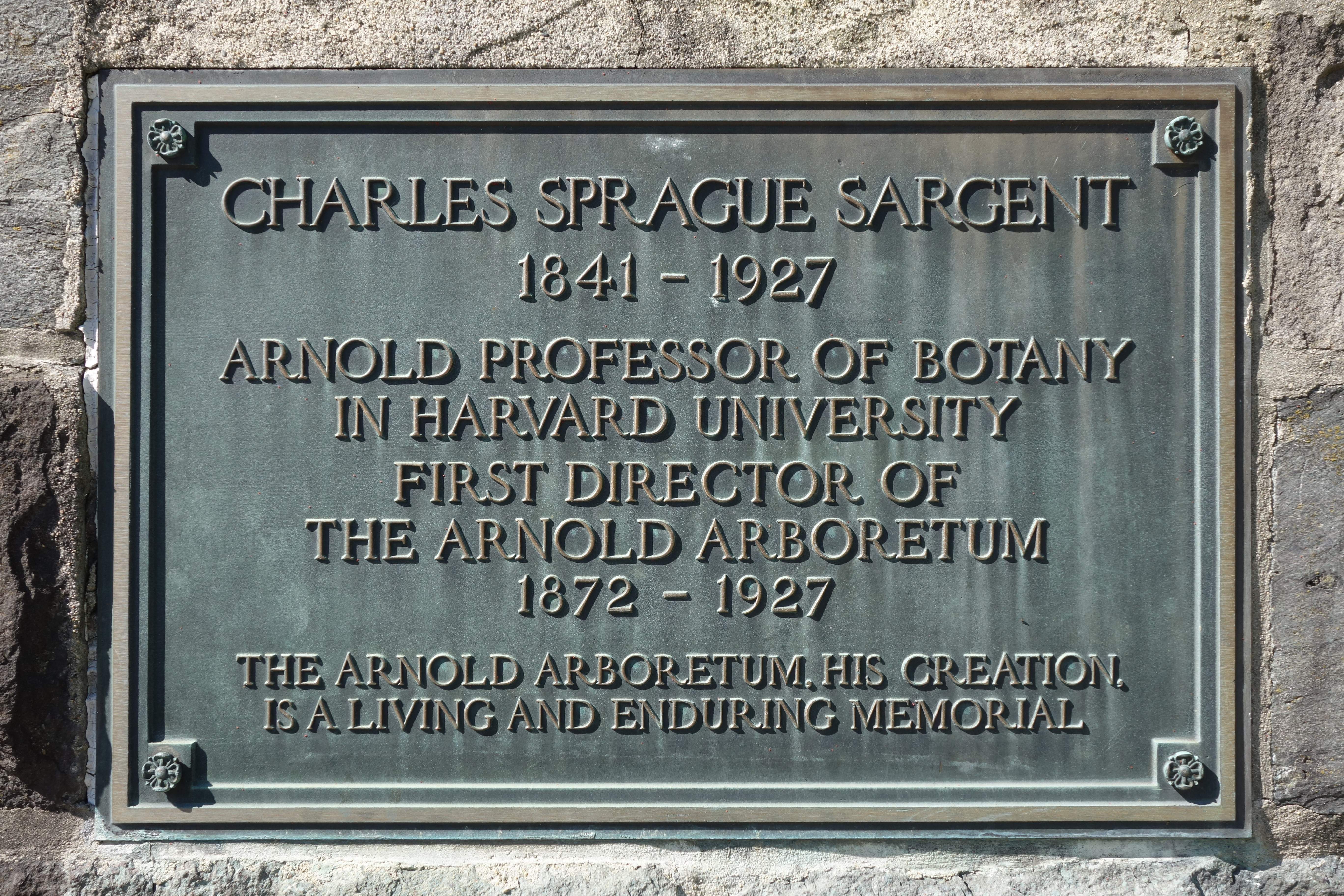 Charles Sprague Sargent plaque - Arnold Arboretum, Jamaica Plain, Boston, Massachusetts, USA.